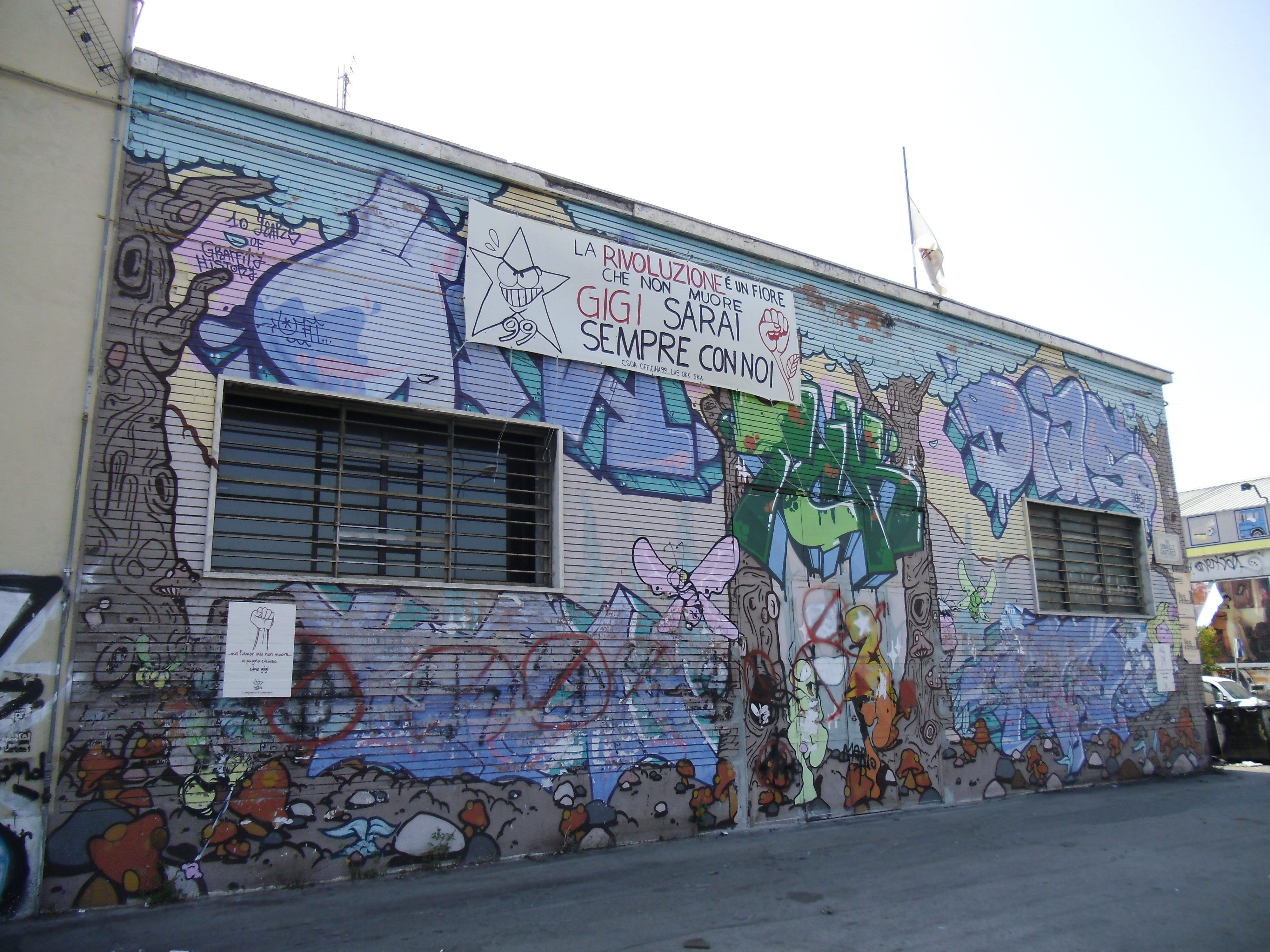 Centro Sociale Autogestito: Officina 99. Naples.